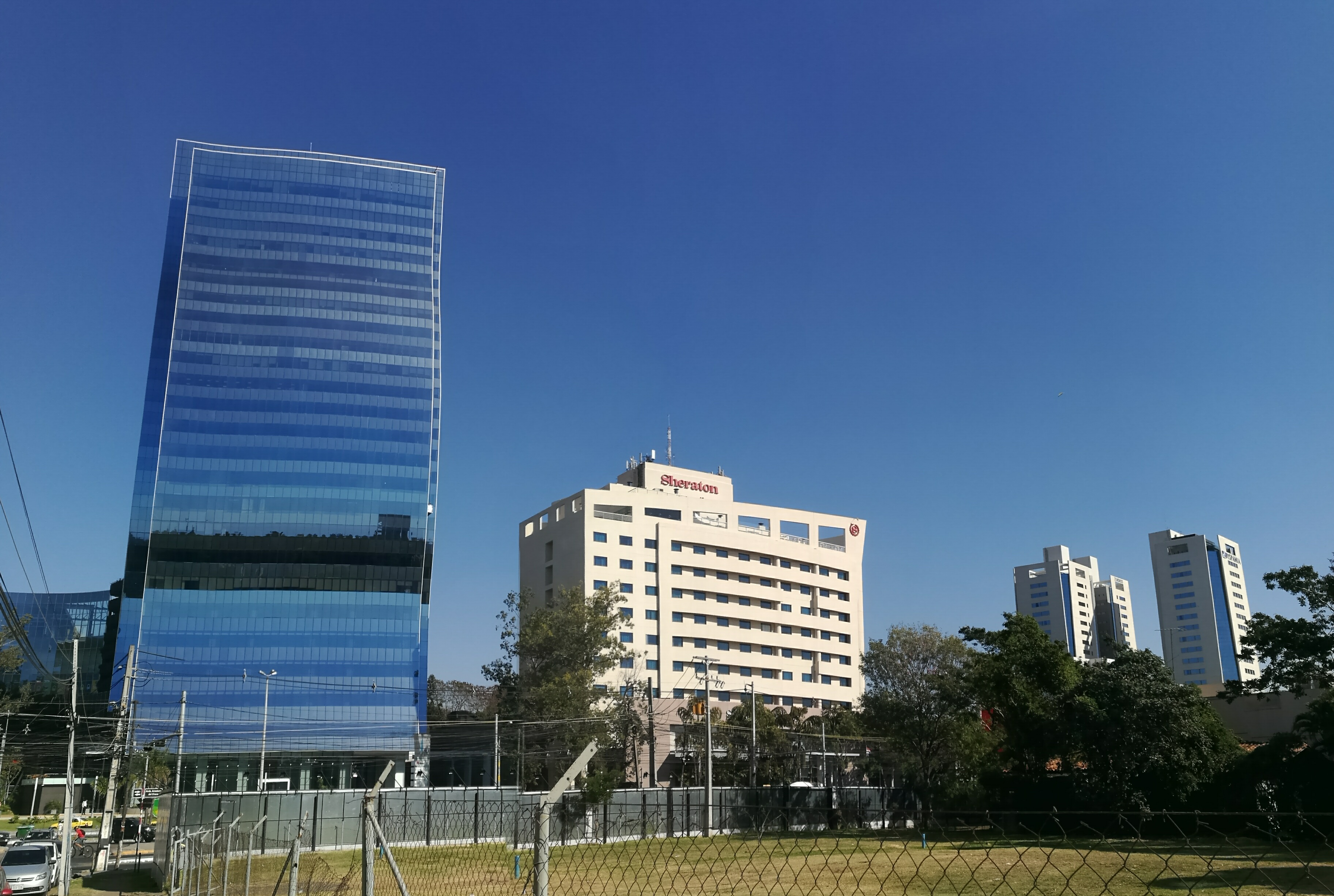 Barrio Ycua Sati, Asunción